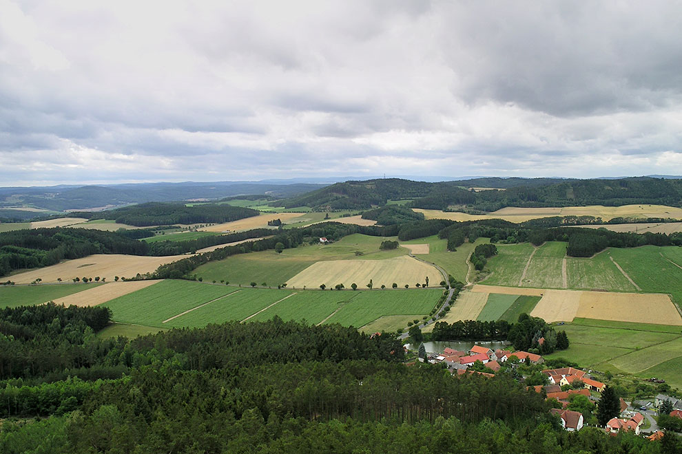 A view from lookout tower on the Veselý vrch (489 m) towards west. In the right at foot of the hill village of Mokrsko, part of Chotilsko municipality, Příbram District, Czech Republic.